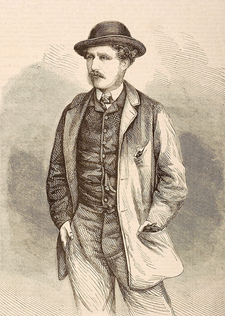 A vintage illustration featuring Fred Lillywhite, the sports outfitter and cricketing entrepreneur who organised the first overseas cricket tour by an English team, published in 'The Illustrated Sporting News' on 14th July 1866.